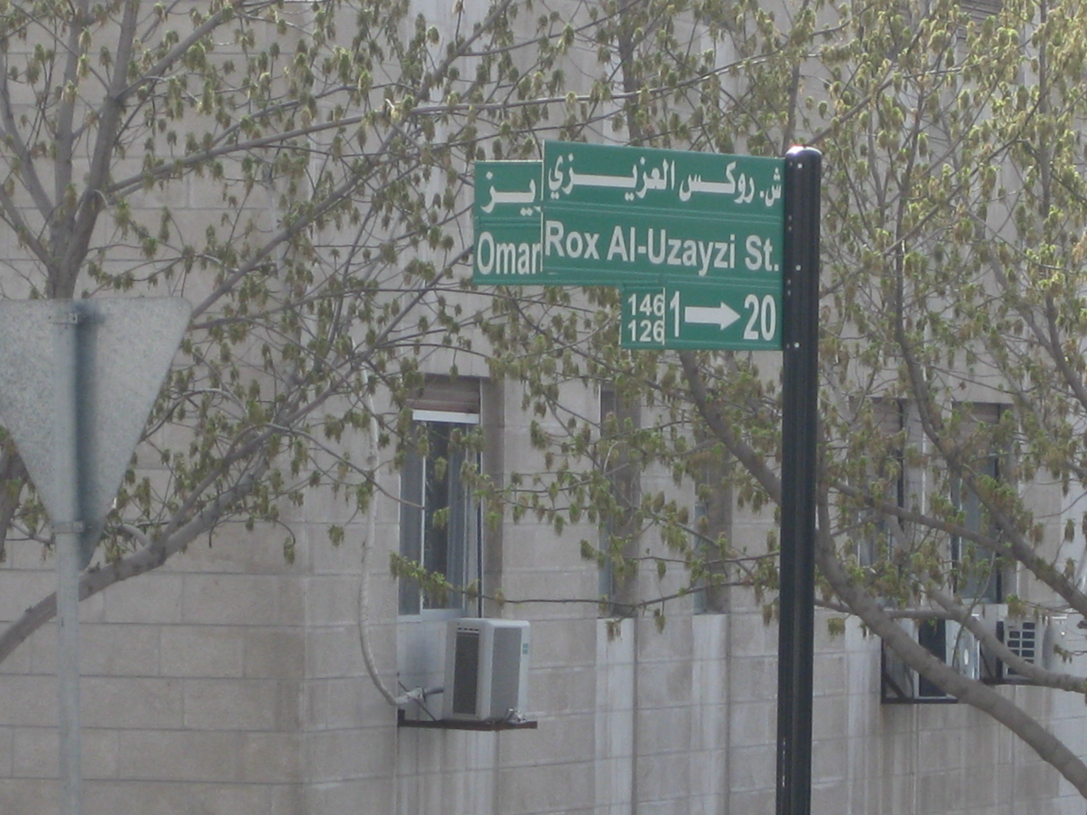 Amman Street signs (Rox Al Uzayzi Street.JPG)